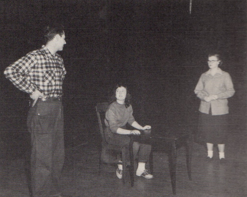 Photograph of the performance of The Twelve Pound Look, by J.M. Barrie, at Shimer College in 1951-1952, from the 1952 yearbook of Shimer College. Now a liberal arts college in Chicago, Shimer was then located in Mount Carroll, Illinois. A young Mitzi Hoag is seated at the center of the photo. Other members of the cast, not all of whom are shown, included Les Hammersley, Phyllis Butcher, and George Beauchamp. Published in the school's 1952 yearbook, which does not contain a copyright notice. Additionally in the public domain due to the terms of dedication of the Shimer College Collection (which includes a copy of this yearbook) to Northern Illinois University in 1979, which vested literary rights in the collection in the public.